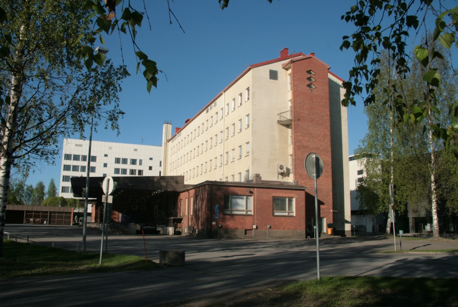 Old post office of Joensuu